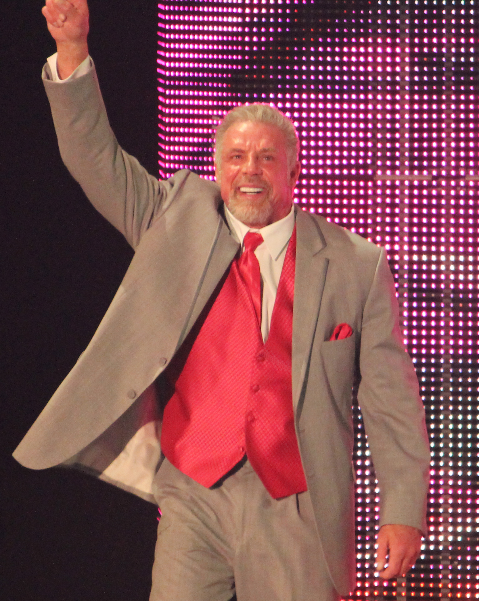 The Ultimate Warrior making an appearance, April 7th 2014